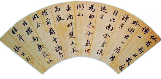 calligraphy of Zhang Baixi